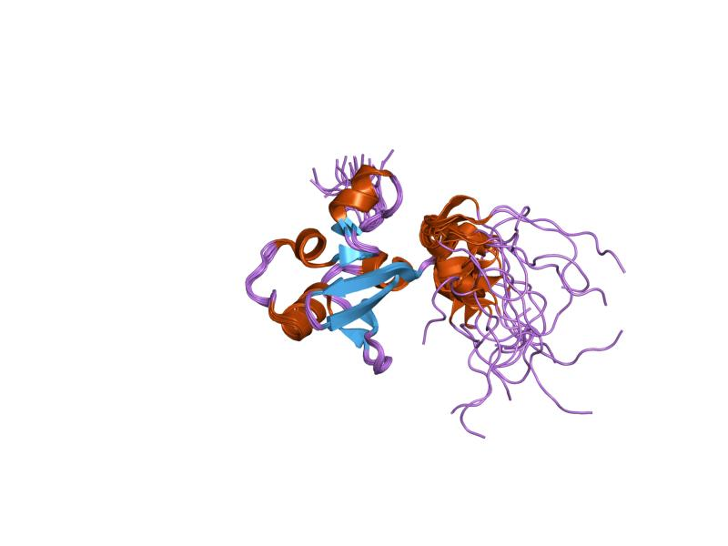 Cartoon representation of the molecular structure of protein registered with 1ufn code.